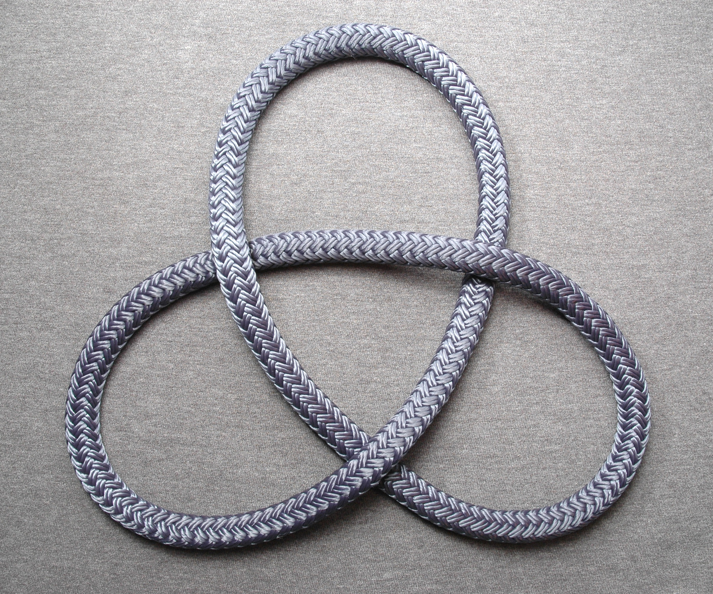 A left-handed trefoil knot